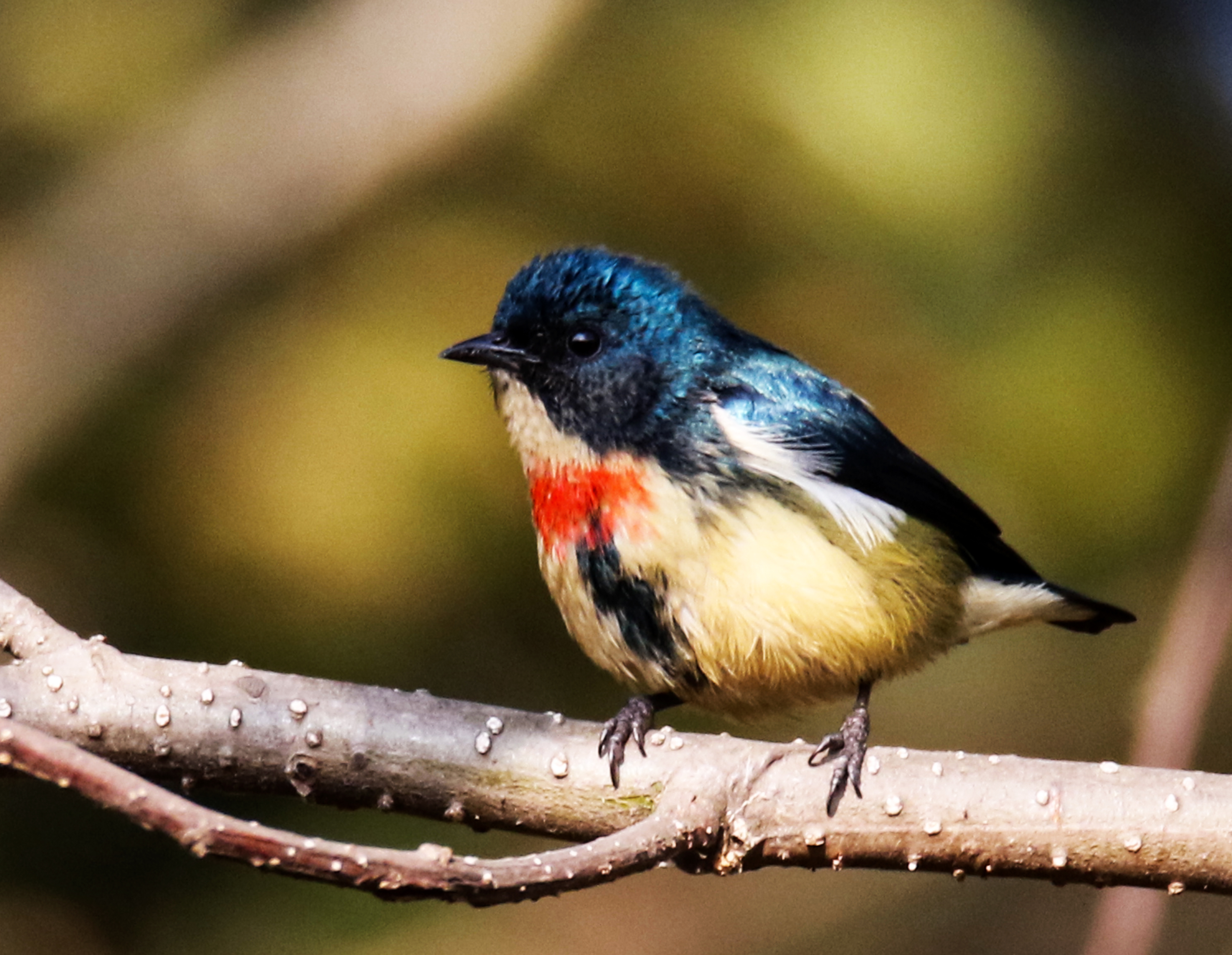 Dicaeum ignipectus, Birds of Nepal